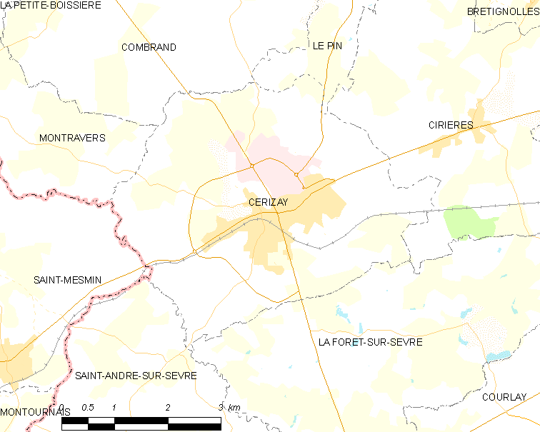 Map of French municipality Cerizay